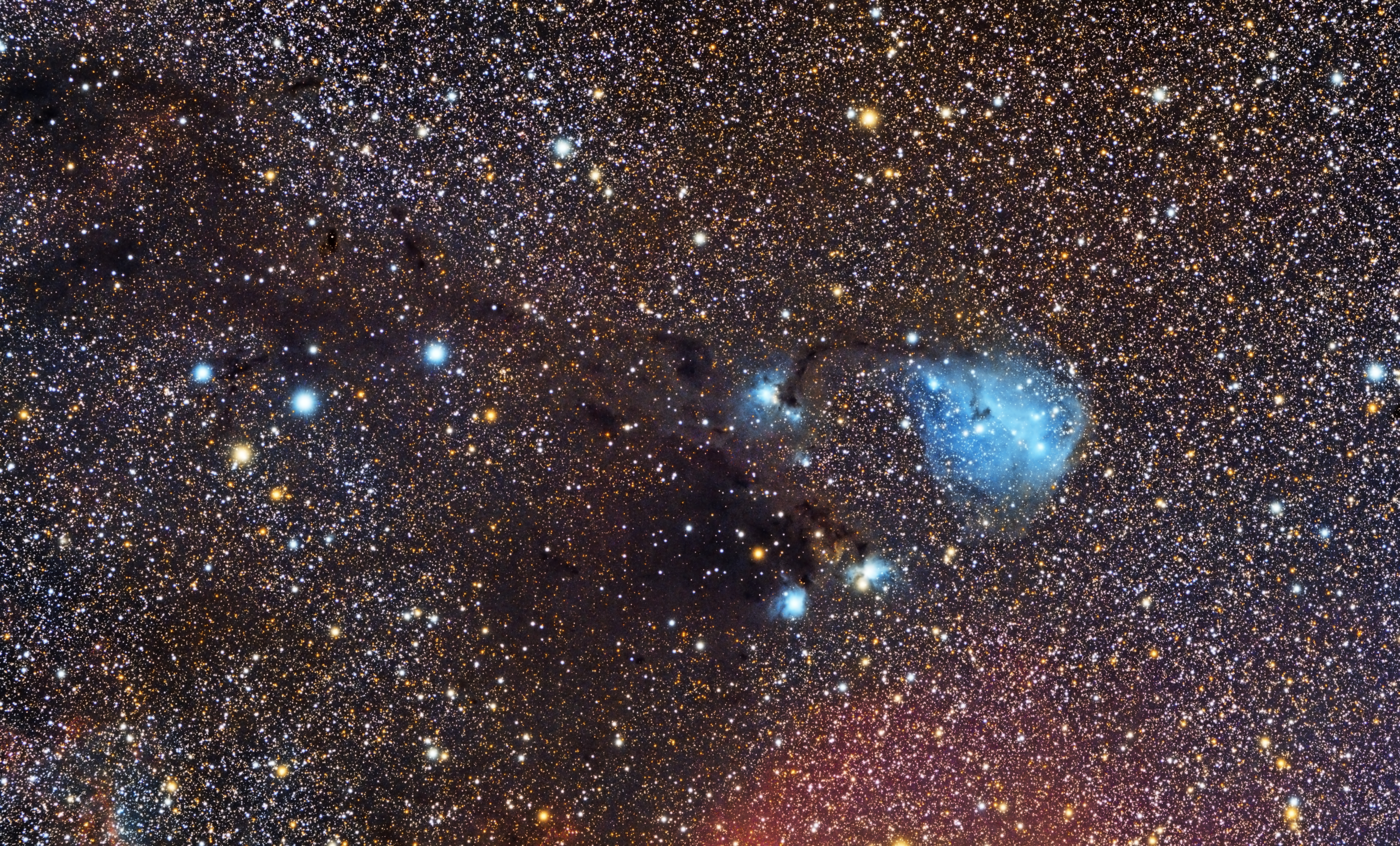 The same two objects [IC-446/IC-2167, and IC-447/IC-2169] were apparently discovered twice by Barnard.. Also in this image: NGC2245, NGC2247 and LDN1596 . Image dates: 19,20,22,23 December 2016. 185x240 seconds iso1600. Esprit 100 f5.5 APO/Canon 6Da. Stacked in DeepSkyStacker with 33 Flatframes and 174 Bias frames. Processed in Pixinsight.